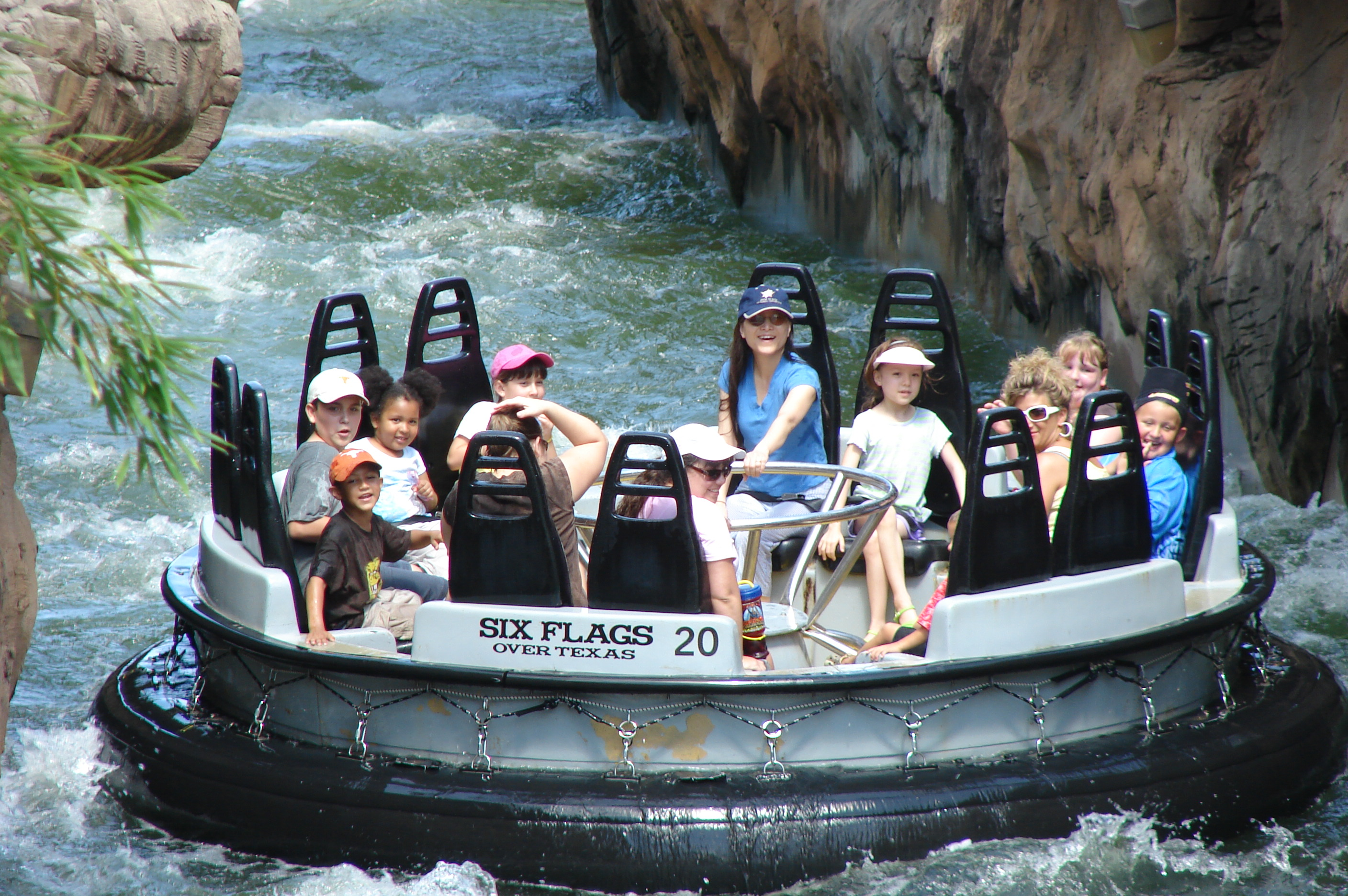 Roaring Rapids river rafting ride at Six Flags Over Texas theme park